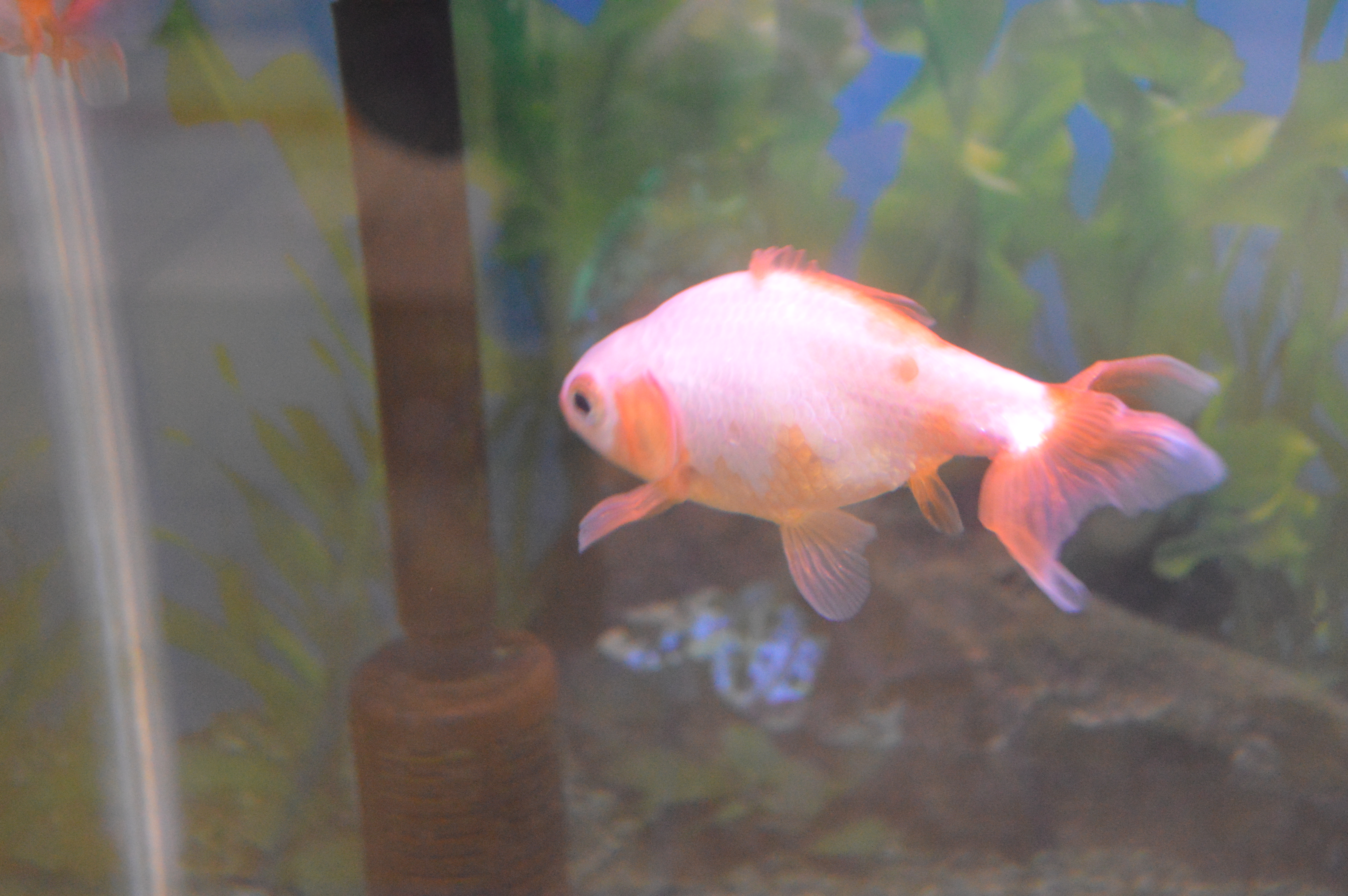 弥富金魚。ジキン（地金）。